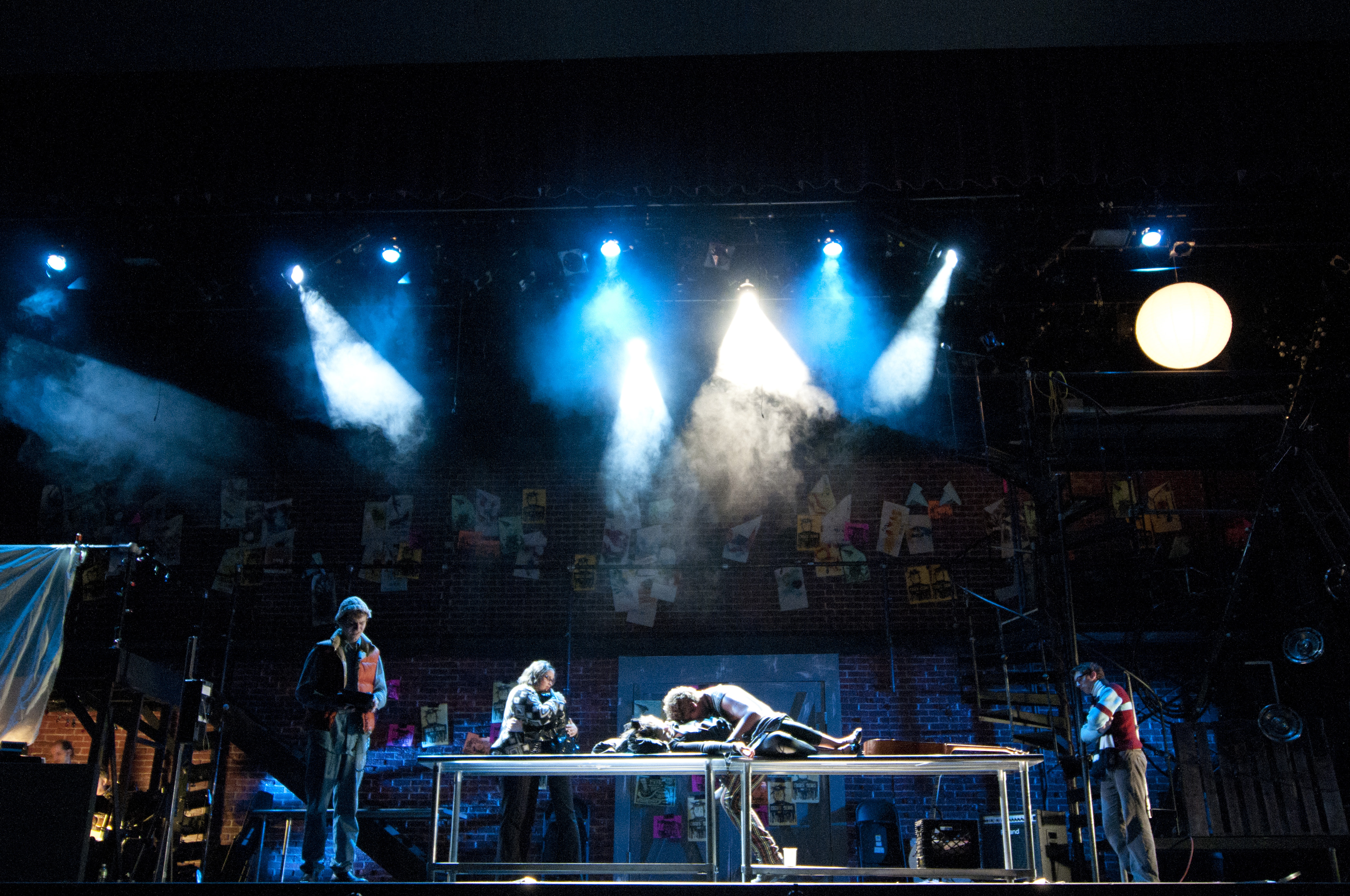 Photograph illustrating the effect of haze on theatrical lighting instruments